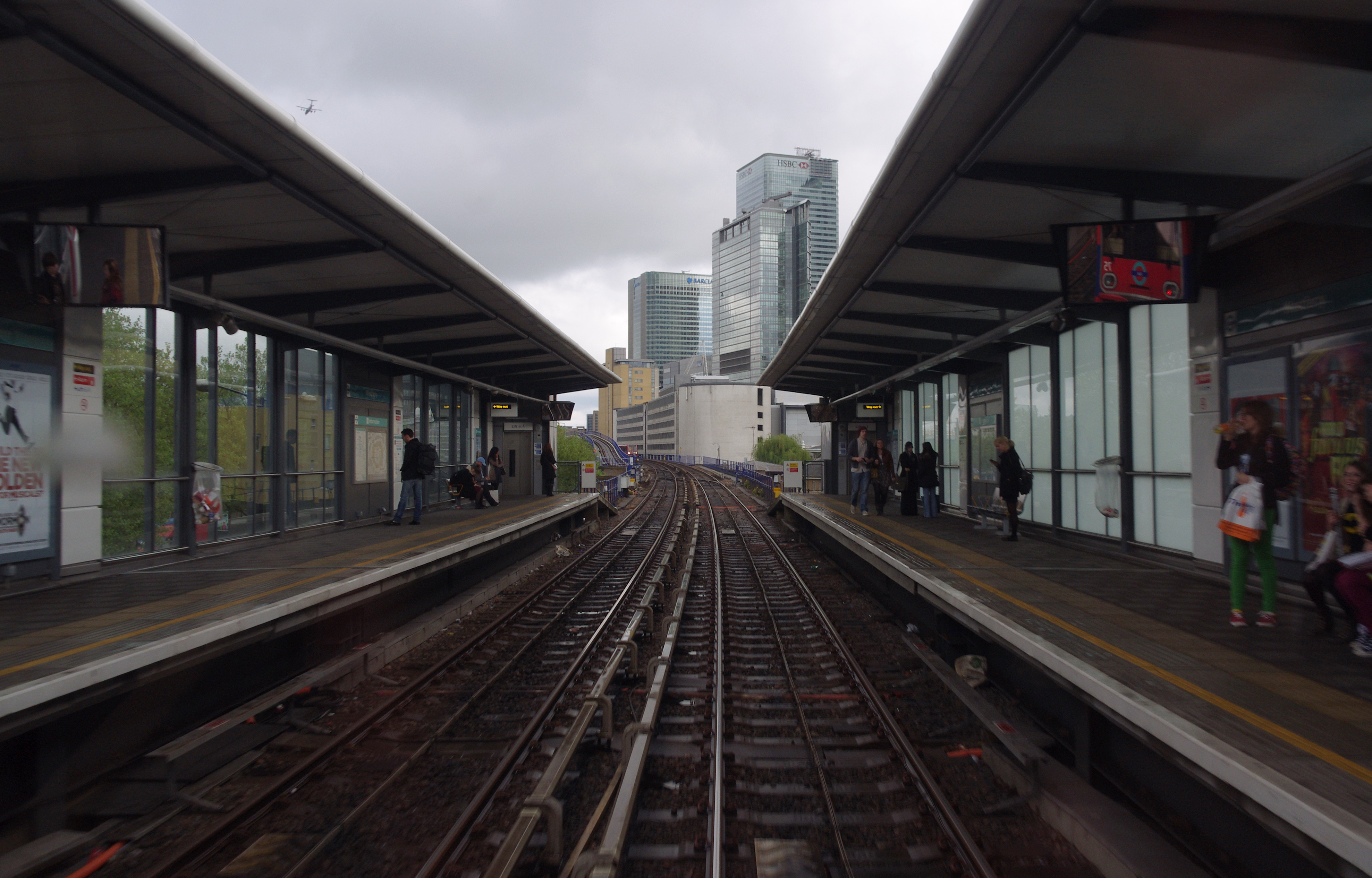 Looking east from Westferry DLR station.